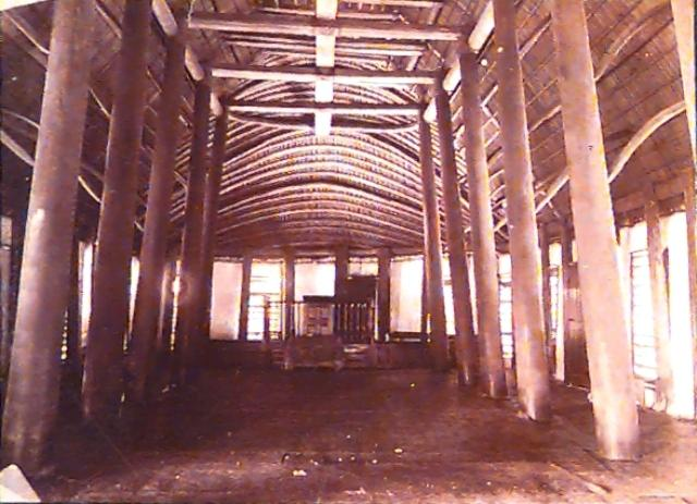 Interior of traditional church in Alofi, Niue.